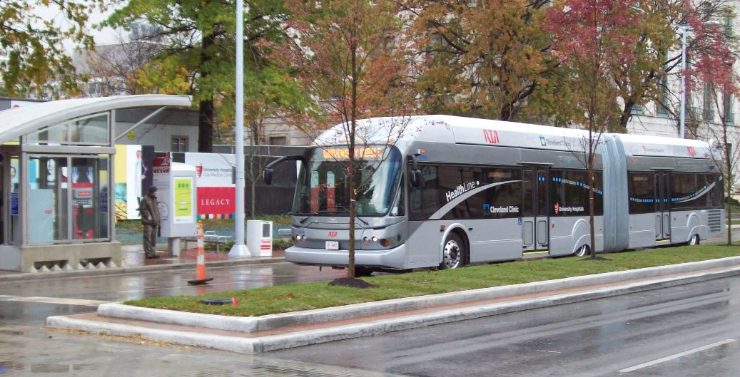 HealthLine Bus in University Circle (Adelbert Road station)